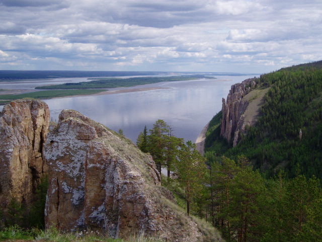 Taken by me, the poster, during an eco trip from Yakutsk. The tiny little rock formation in the far right is known as the lone maiden. You can barely make it out.